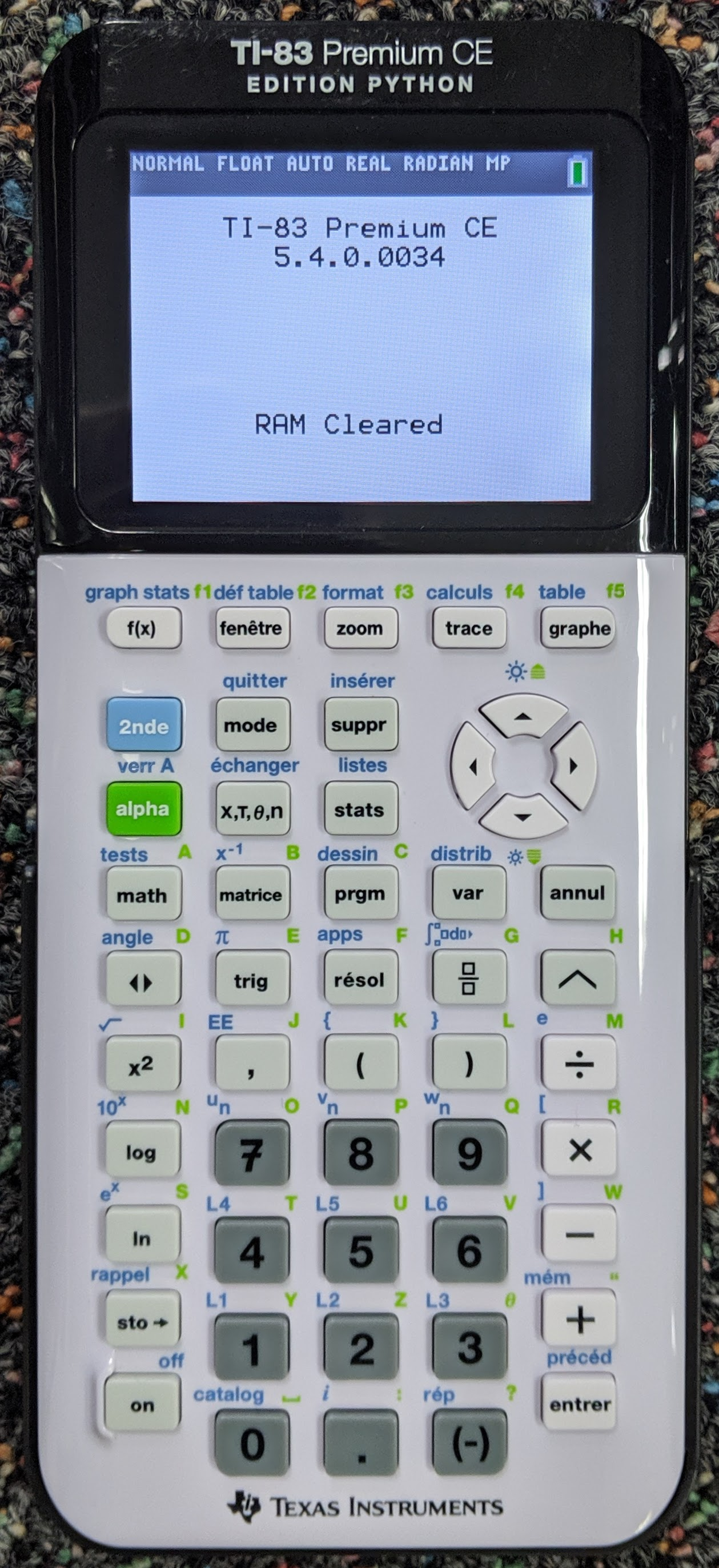 TI-83 Premium CE Edition Python